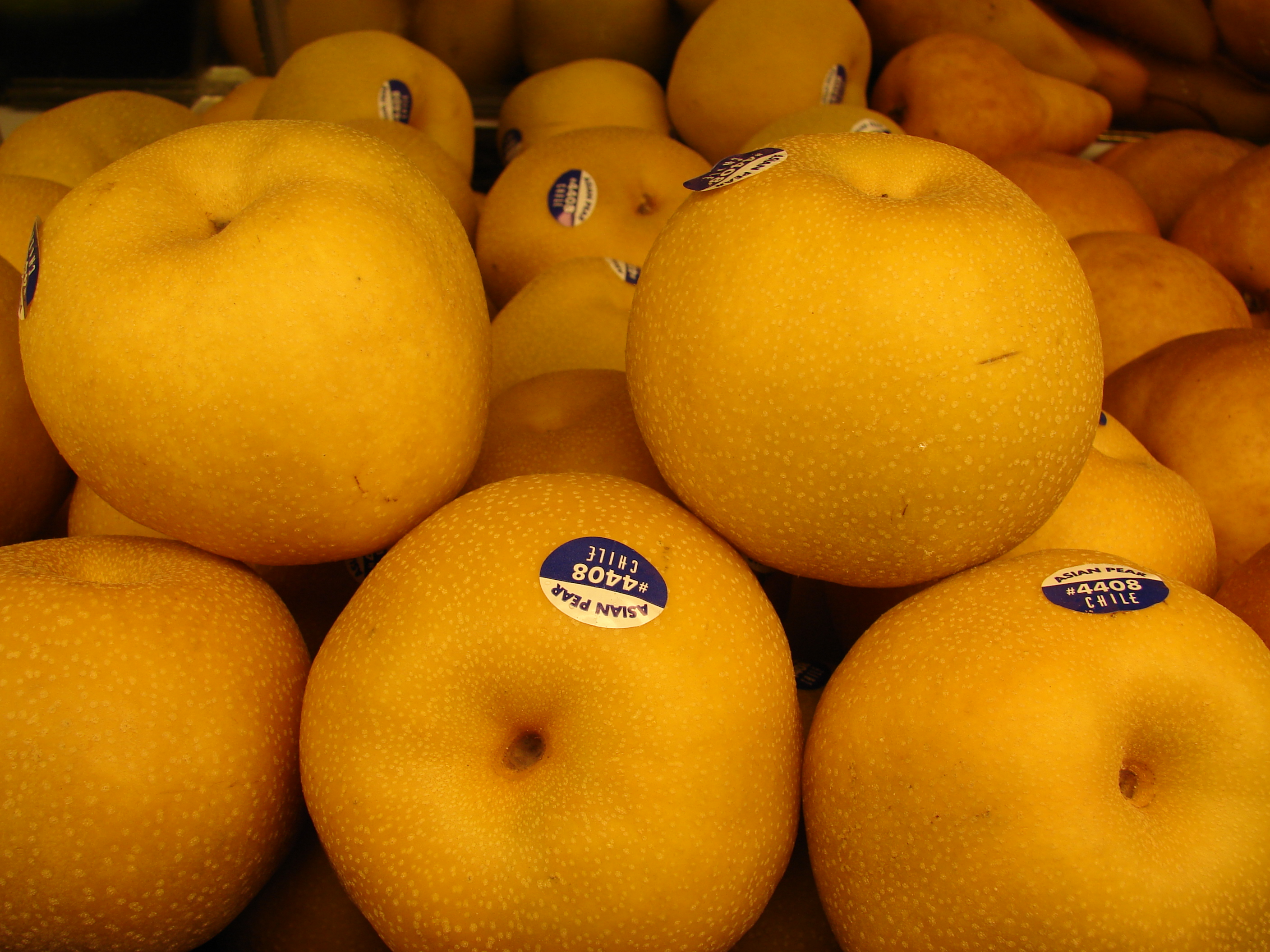 Pyrus pyrifolia var. culta (Hosai Asian pear variety). Location: Maui, Foodland Pukalani